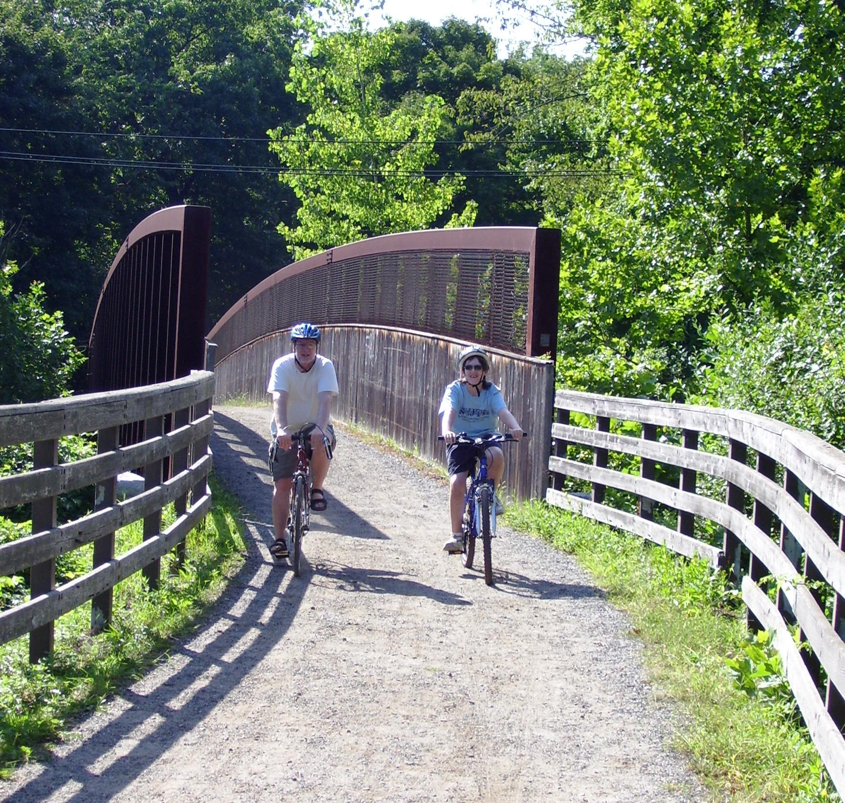 A bridge over Route 9 on the Old Croton Aqueduct Trail in Mount Pleasant, New York, near the village of Briarcliff Manor. The bridge was built as a replacement for an aqueduct bridge, and connects together two sections of the trail which was separated for years.